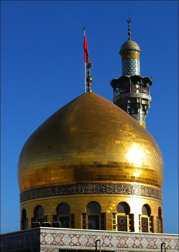 This is an image of the Sayyidah Zaynab Mosque.